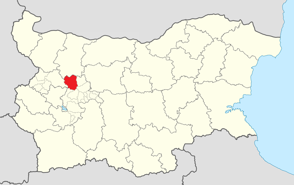 Location map of Botevgrad Municipality within Bulgaria and Sofia province